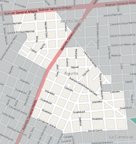 Street map of Figurita, Montevideo, exported from OpenStreetMap. I added shading to delimit the barrio. This map may be incomplete, and may contain errors. Don't rely solely on it for navigation.